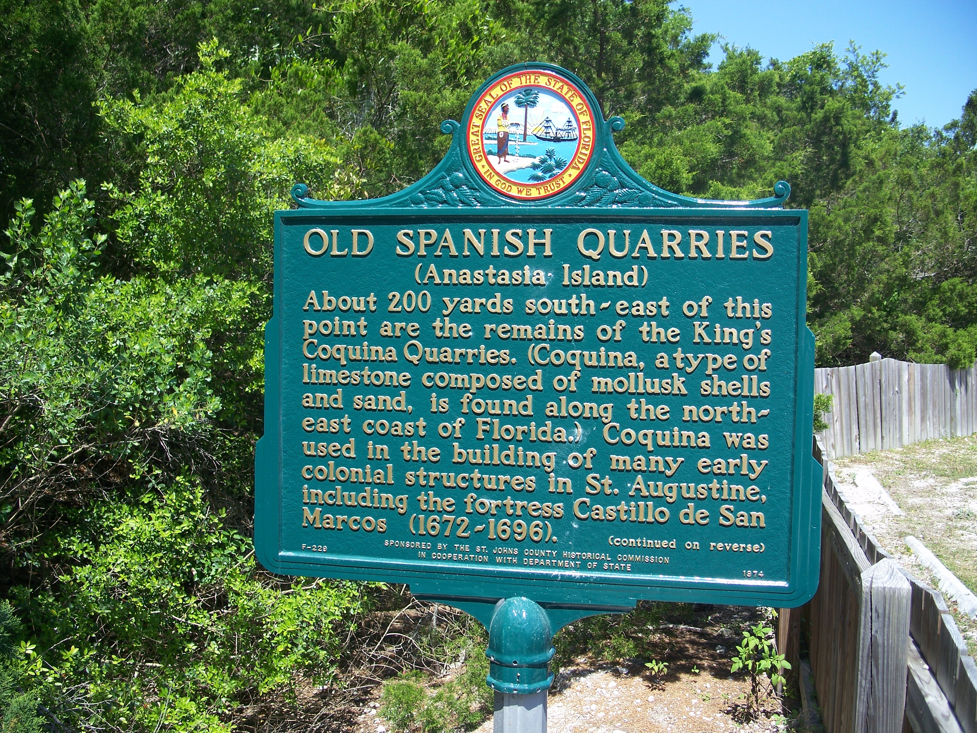 St. Augustine, Florida: Spanish Coquina Quarries. Historical marker.